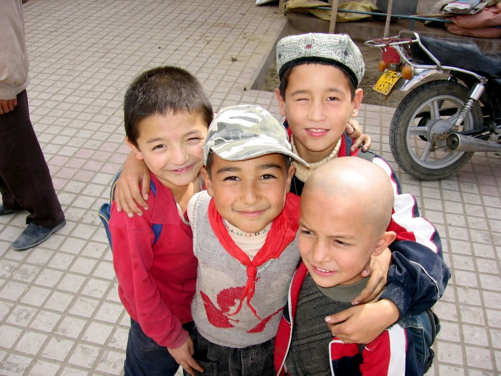 Khotan (Hotan / Hetian) is an oasis city in the Xinjiang Uygur Autonomous Region of the People's Republic of China. Uyghur people at sunday market.